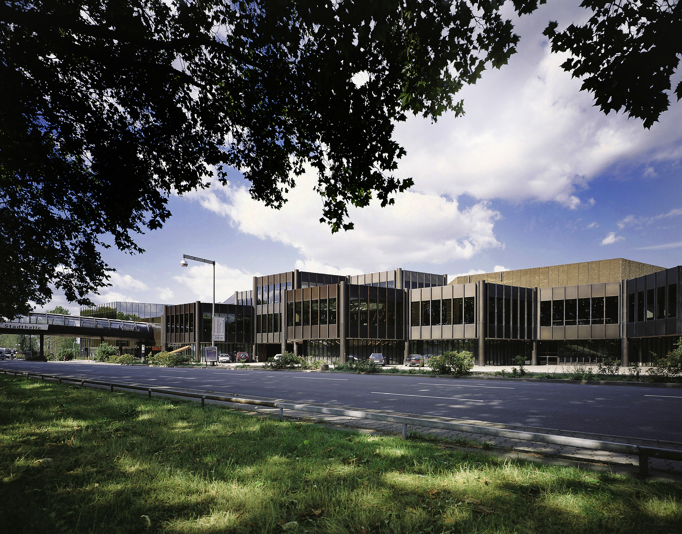 CCD Congress Center Düsseldorf